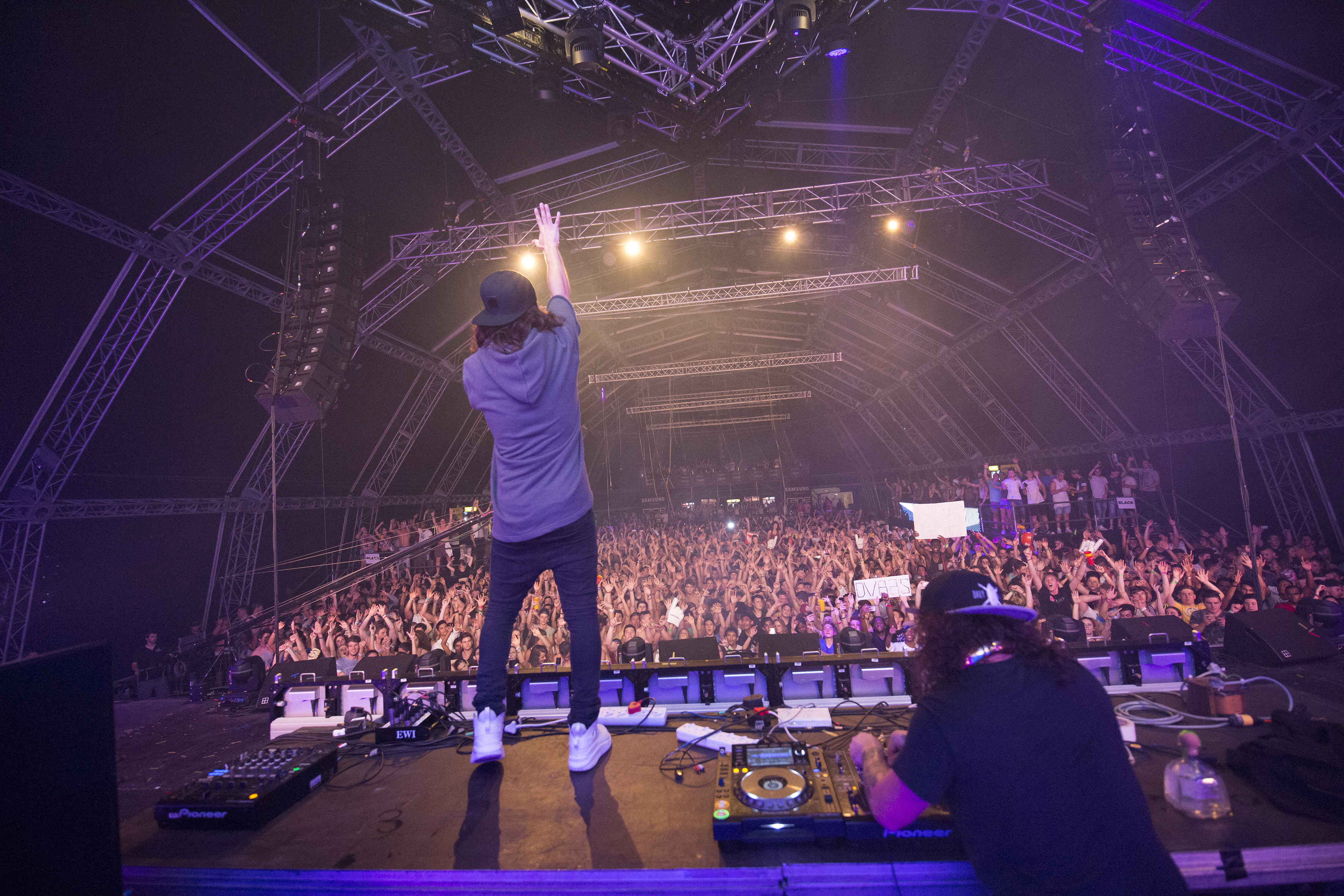 DVBBS at Rage Festival 2015